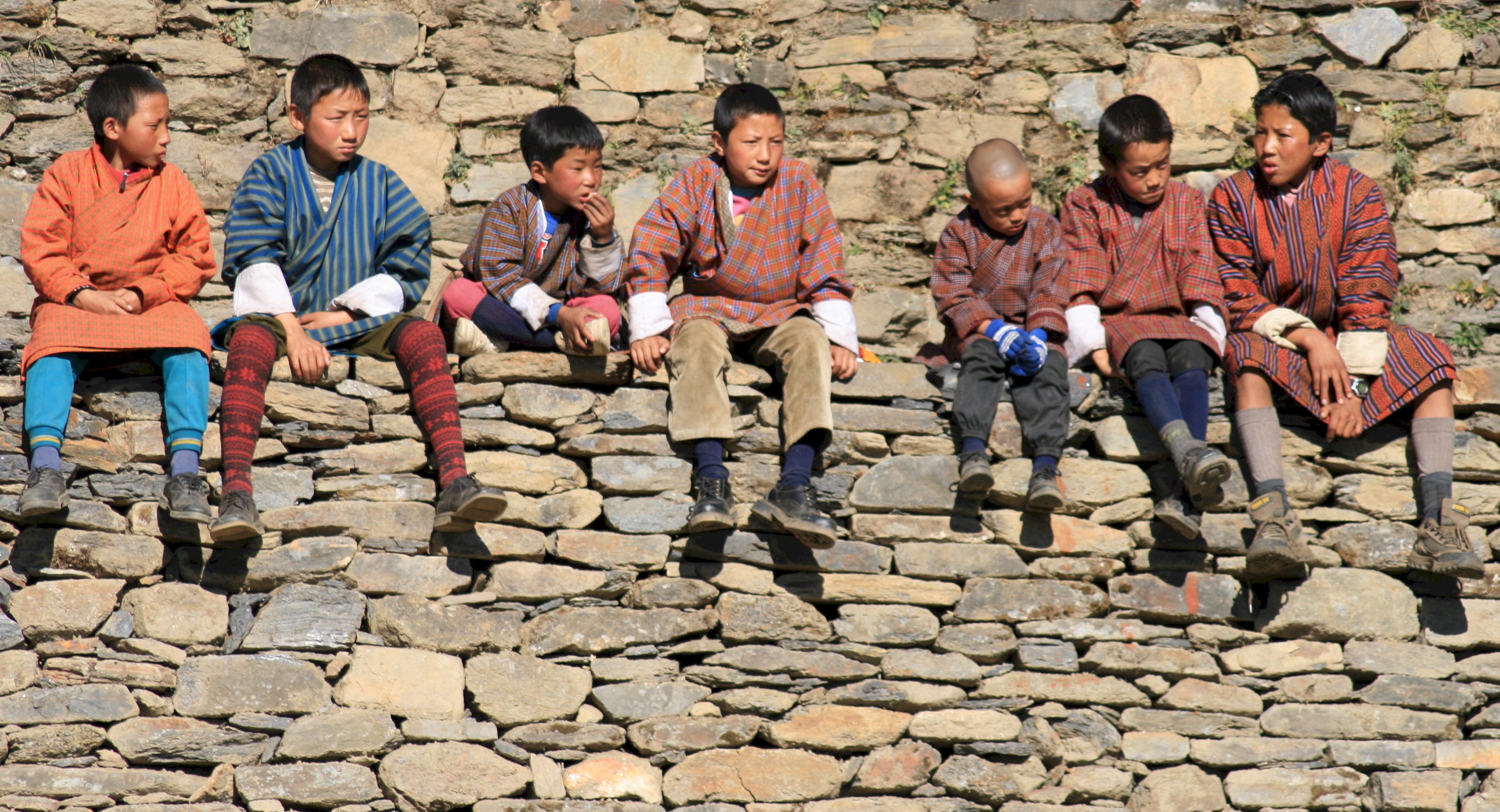 Boys in Bhutan national dress (gho) at Punakha valley festival